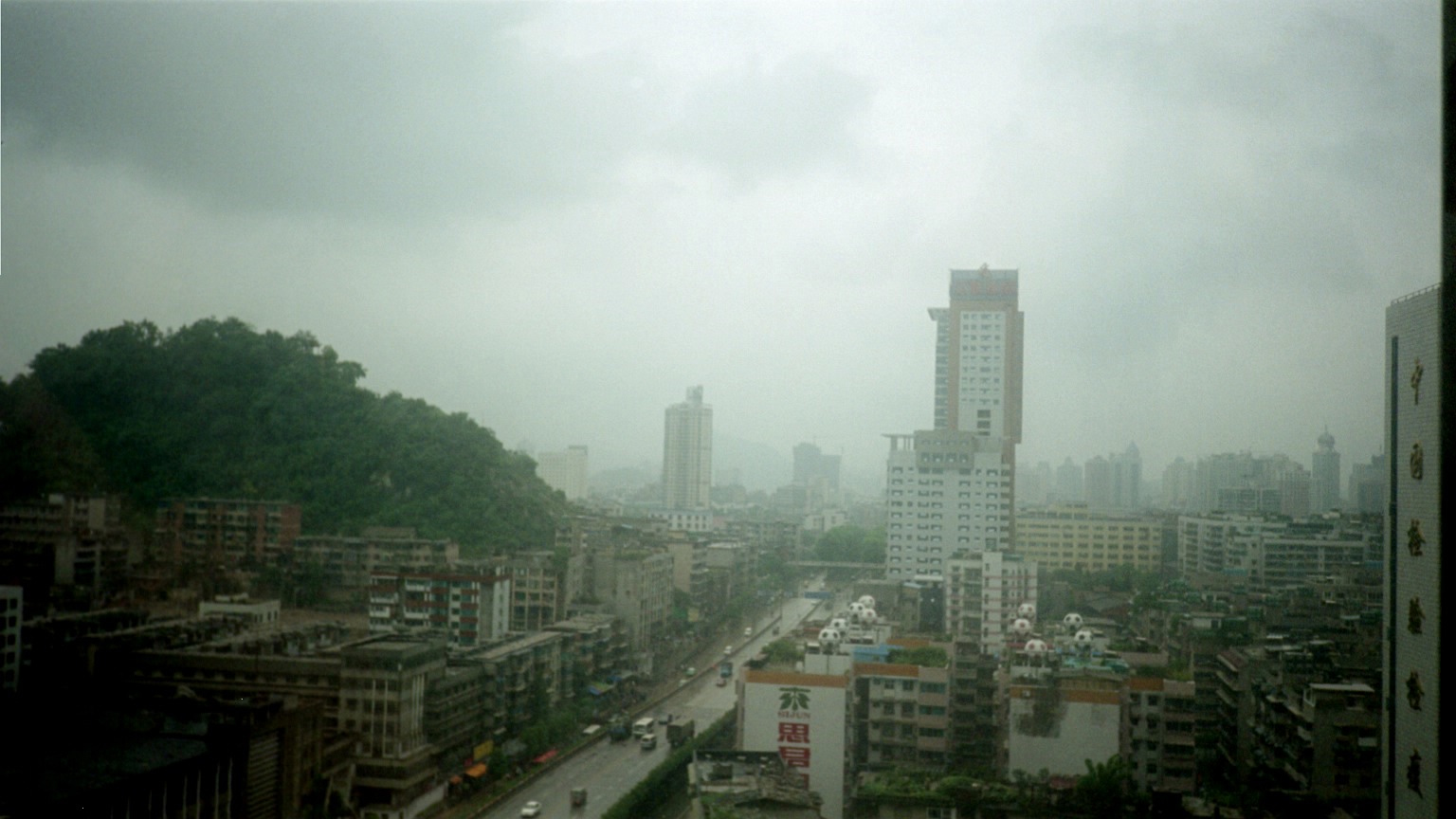 Guiyang, Guizhou, China as seen from Miracle Hotel, 1 Beijing Lu